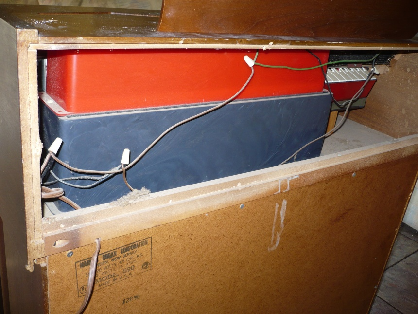 Inside Magnus 890 electric chord organ. Fan blower/reed detail. This instrument creates sound by blowing air past reeds. Circa mid 60's